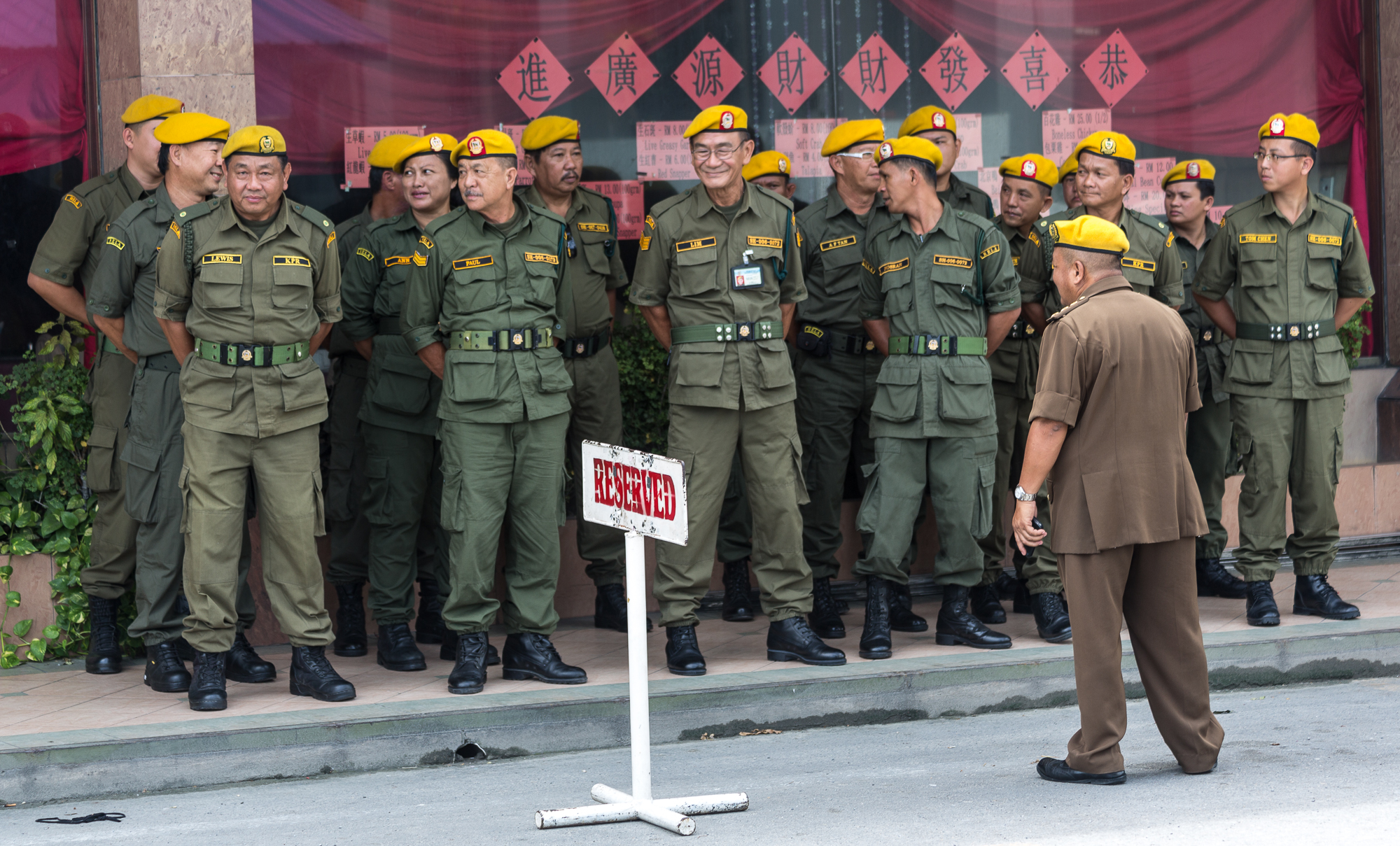 Kota Kinabalu (Sabah): Members of Ikatan Relawan Rakyat Malaysia (RELA) / Malaysia People's Volunteer Corps standing guard during a Chinese New Year Celebration,because a member of the State Government is attending the celebration